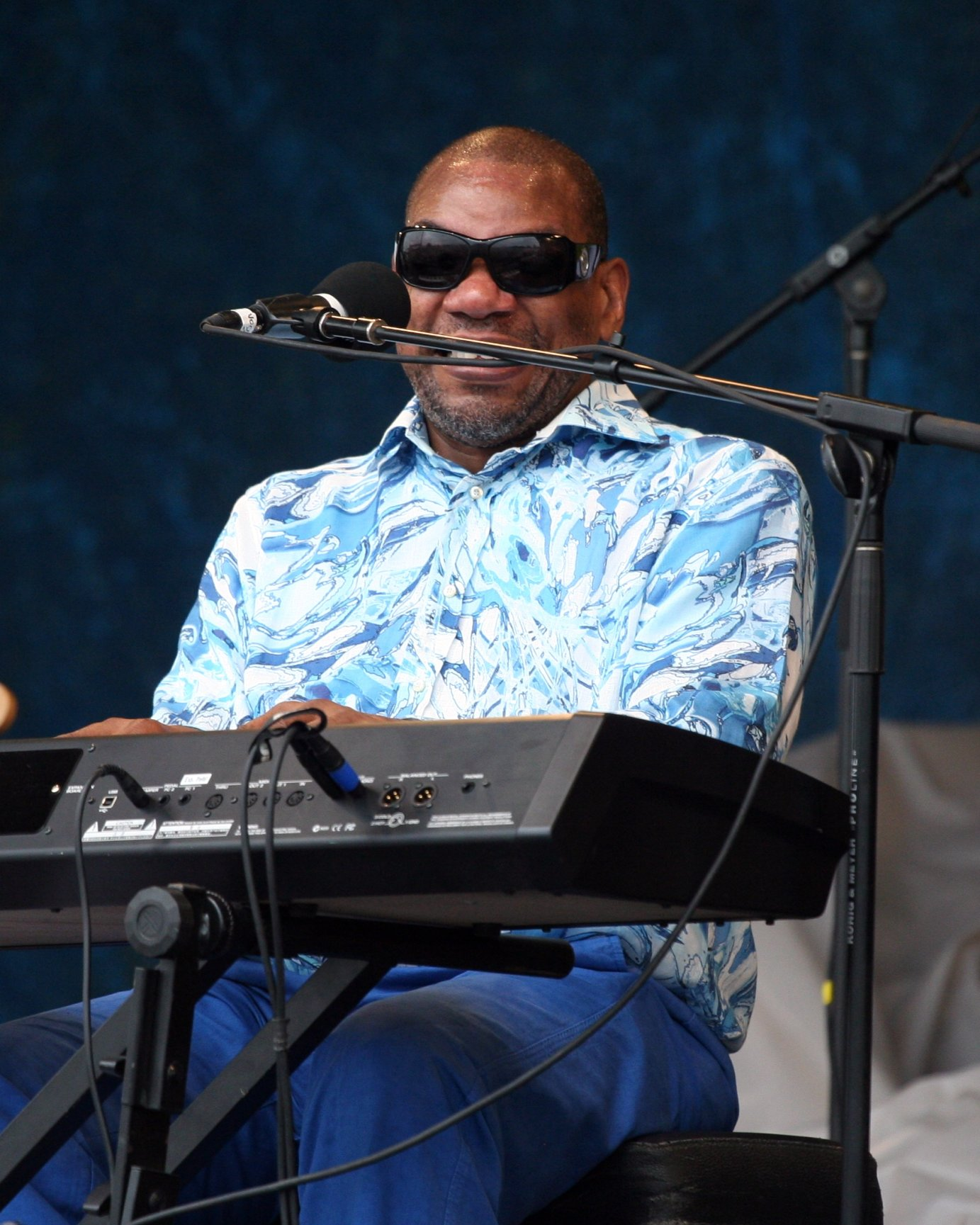 Henry Butler at Jazzfest Gentilly Stage May 1, 2010